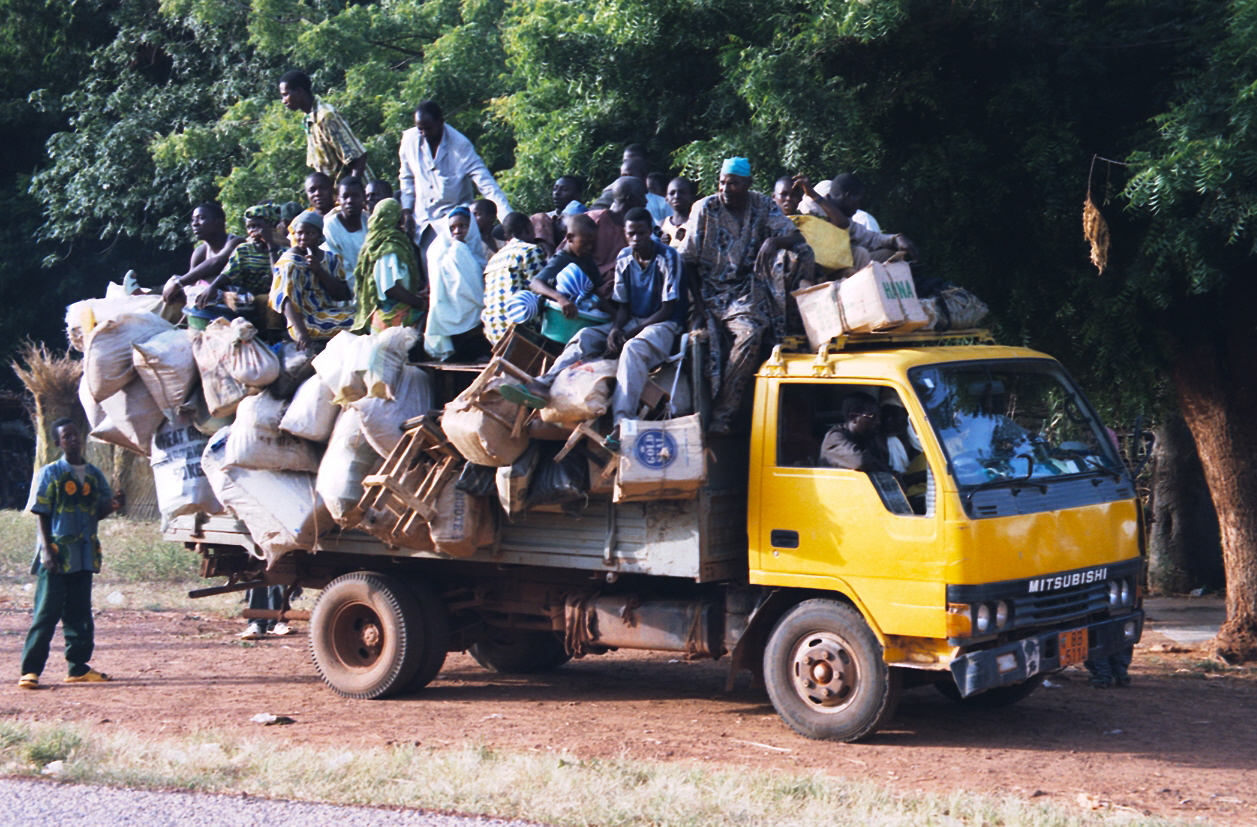 "Traveling along the Route. Niger. Route" Context and content suggests this is between Niamey and Koure (a popular tourist park destination southeast of Niamey) along a main highway, southwestern Niger. Such trucks (Camions) are a common site of Niger's roads, and rent space for travelers as well as goods.